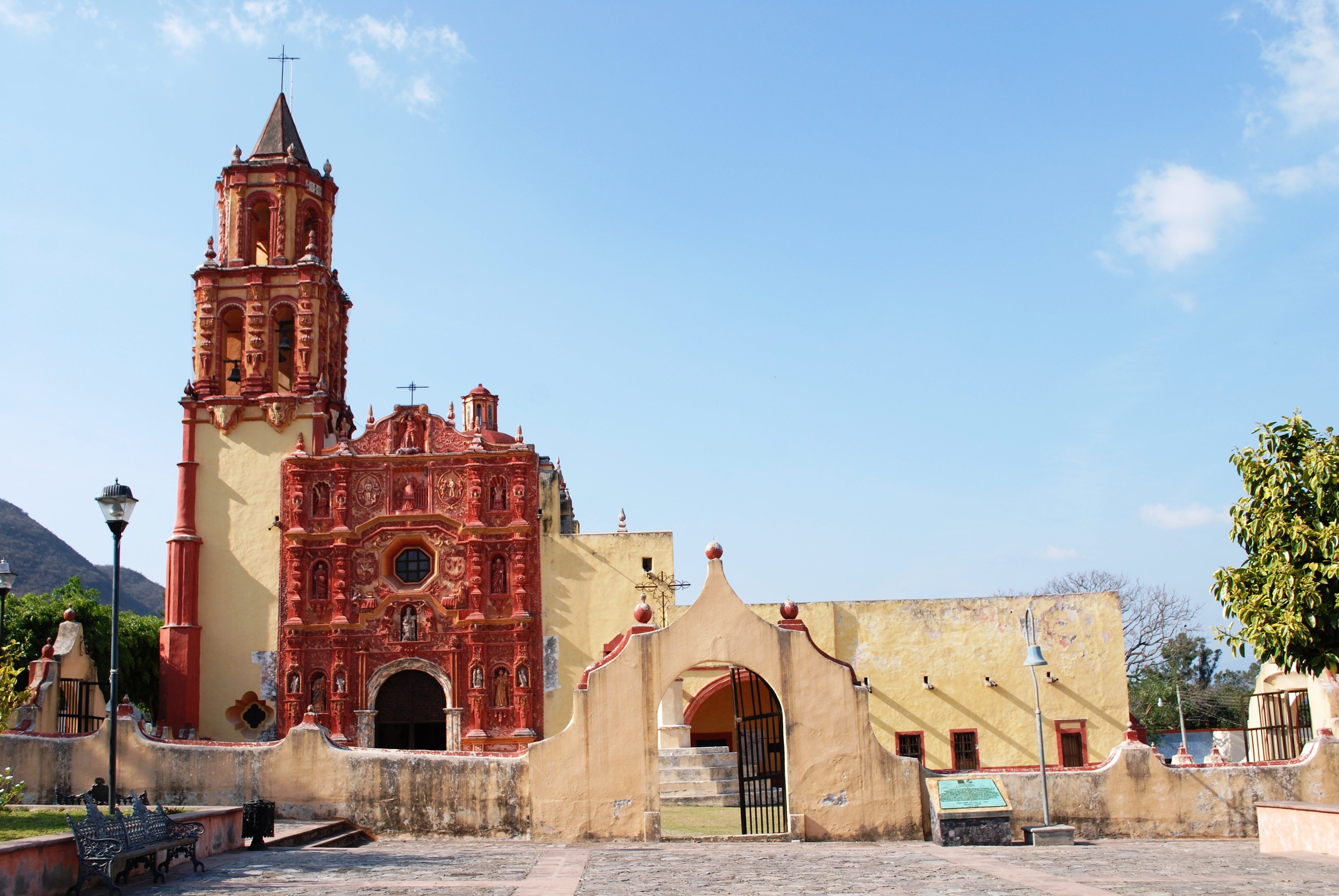 Mission at Landa de Matamoros, Querétaro, Mexico